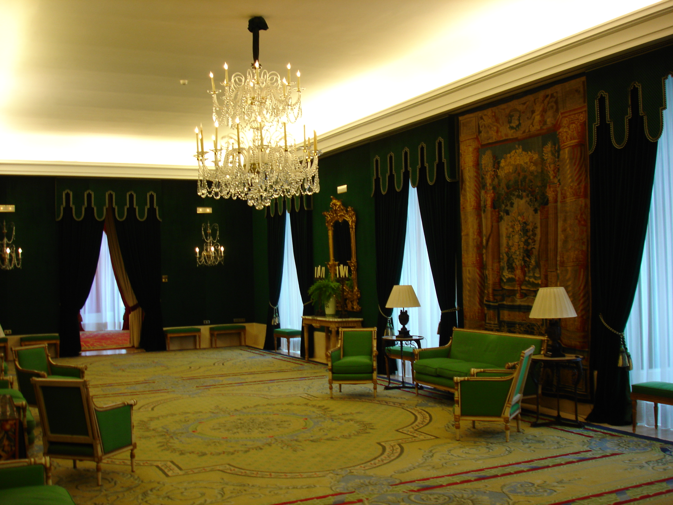 The green room of Teatro Real (opera house and concert hall) in Madrid (Spain).